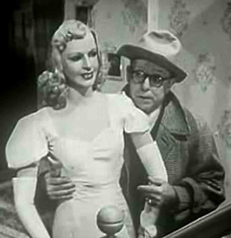 Harry Langdon and “Carol” (1940), in “Misbehaving Husbands”